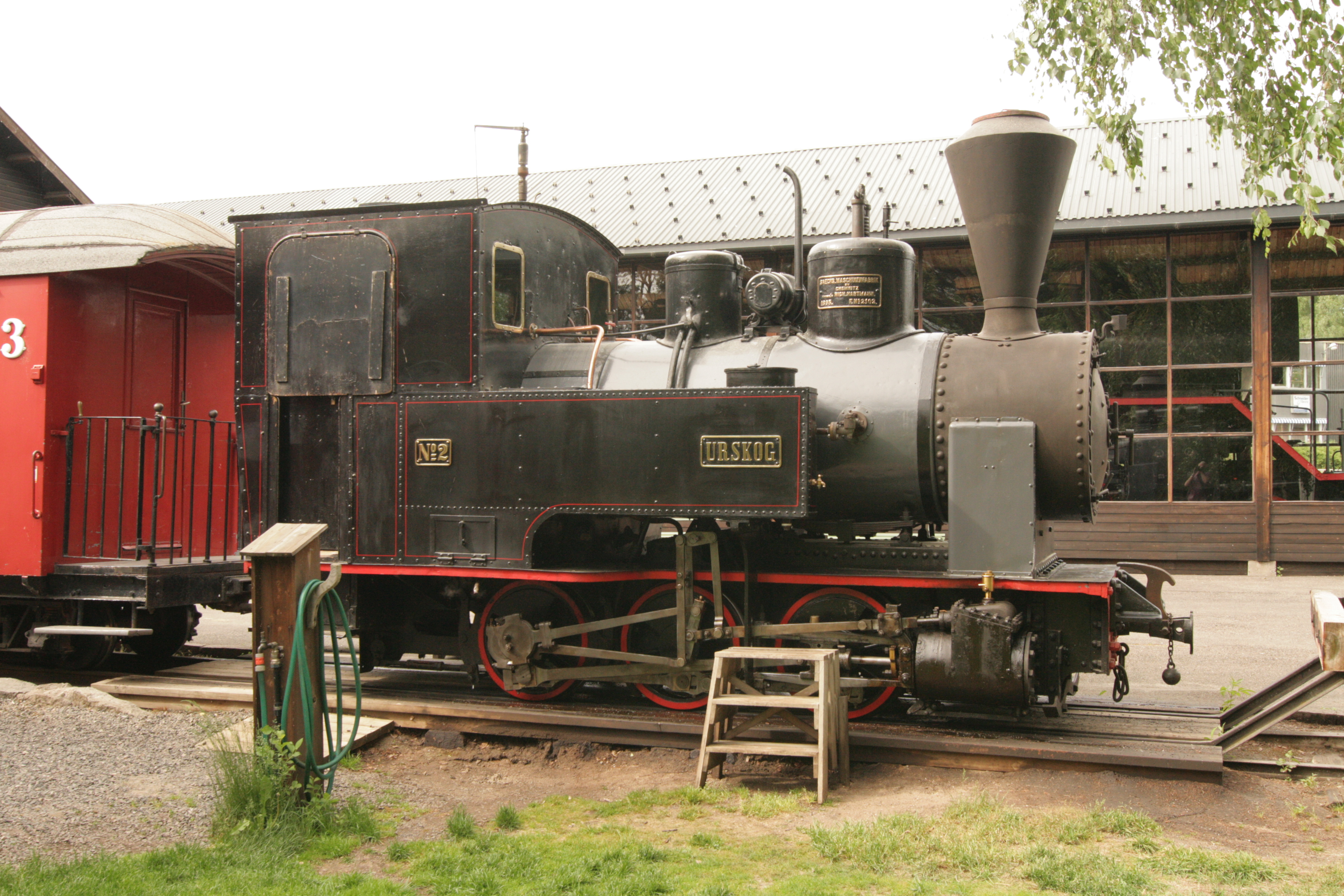 UHB XXVII no. 2 «Urskog» at Norwegian Railway Museum, Hamar. Also known as «Tertitten».